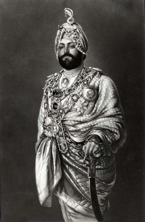 Maharajah Duleep Bassi dressed for a State function, c. 1875, oil painting by Capt. Goldingham of London.